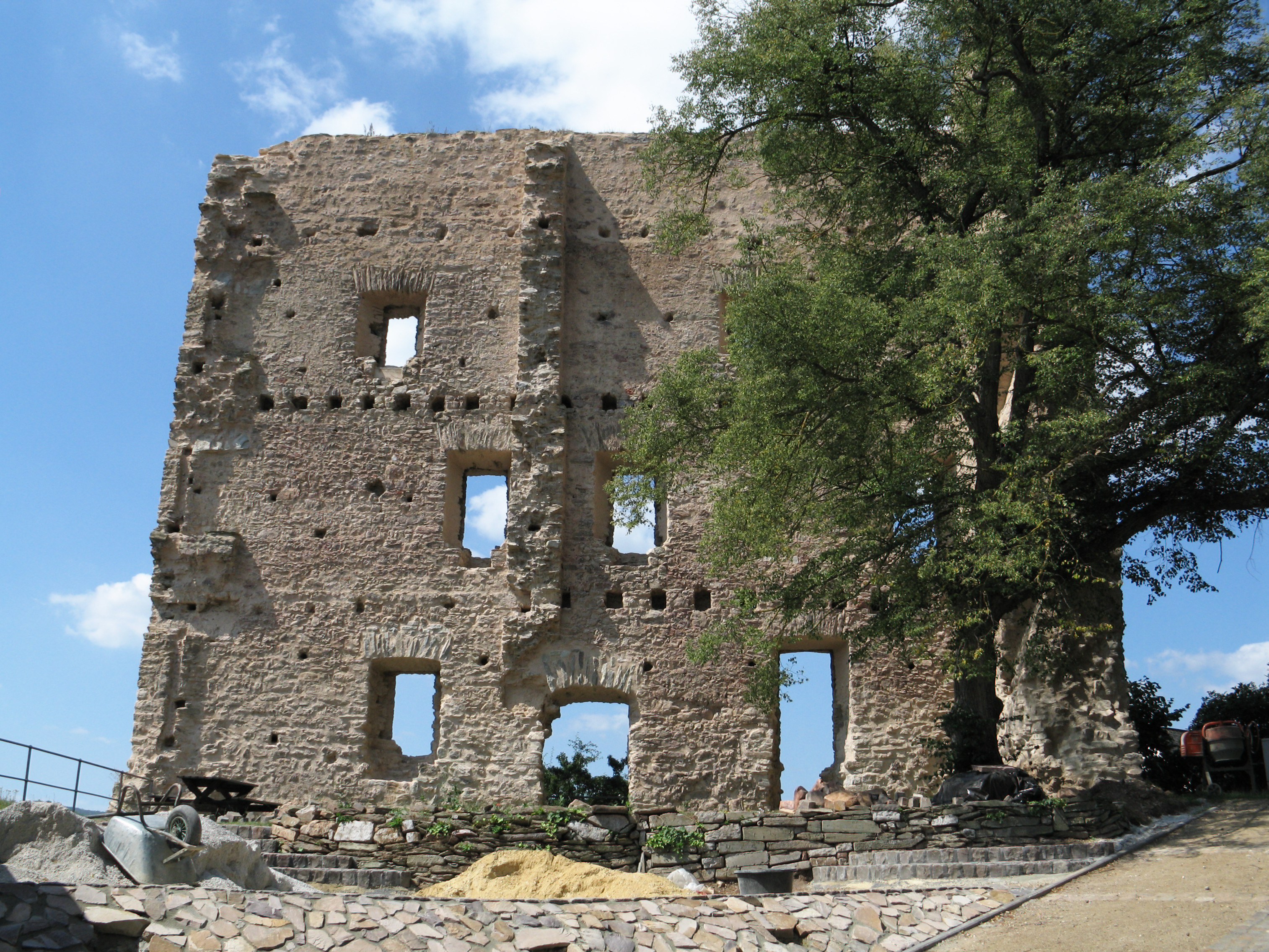 Remains of Oberneisen castle, Taunus, Germany. View to the inner side of the western wall.